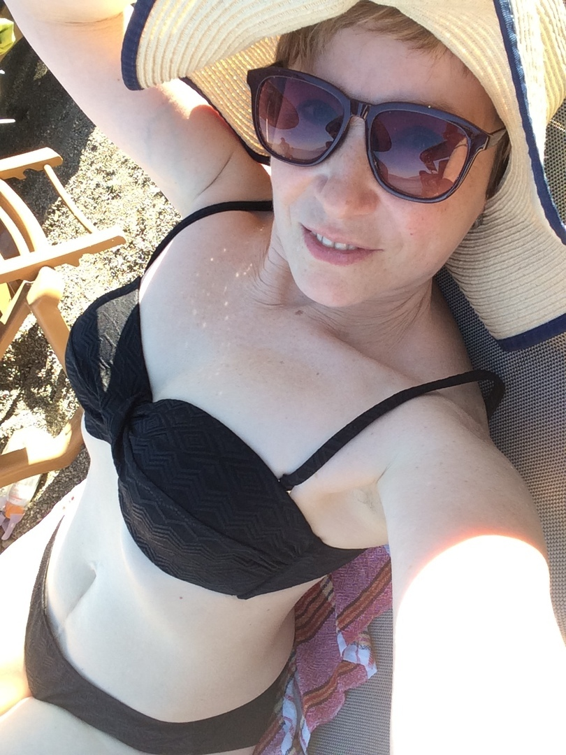 Geography teacher Larisa Pulyanina. Photo in support of the action #teachersarehumanstoo.